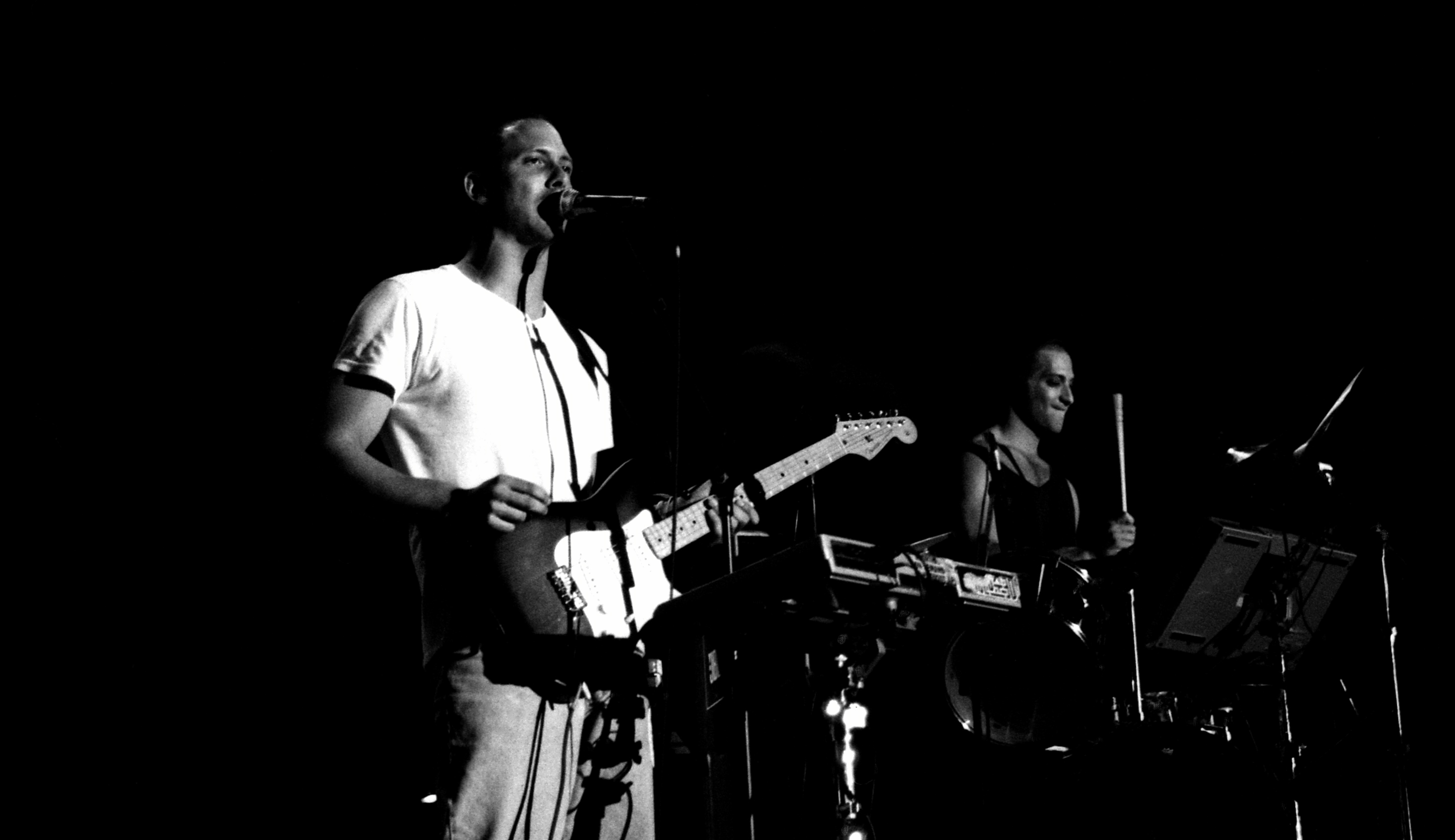 Consolidated at the Hultsfredsfestivalen in Sweden in 1993